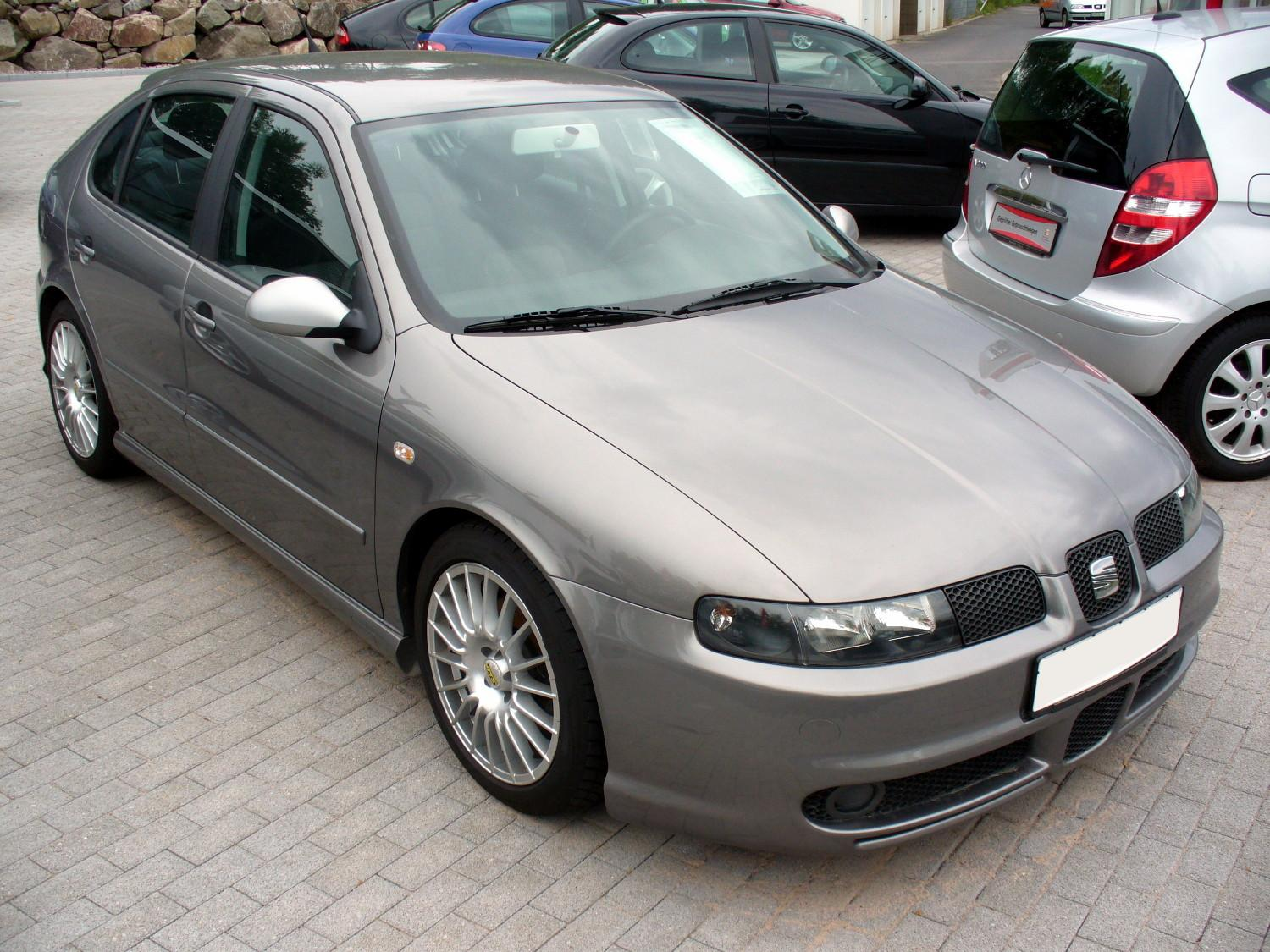 Seat Leon